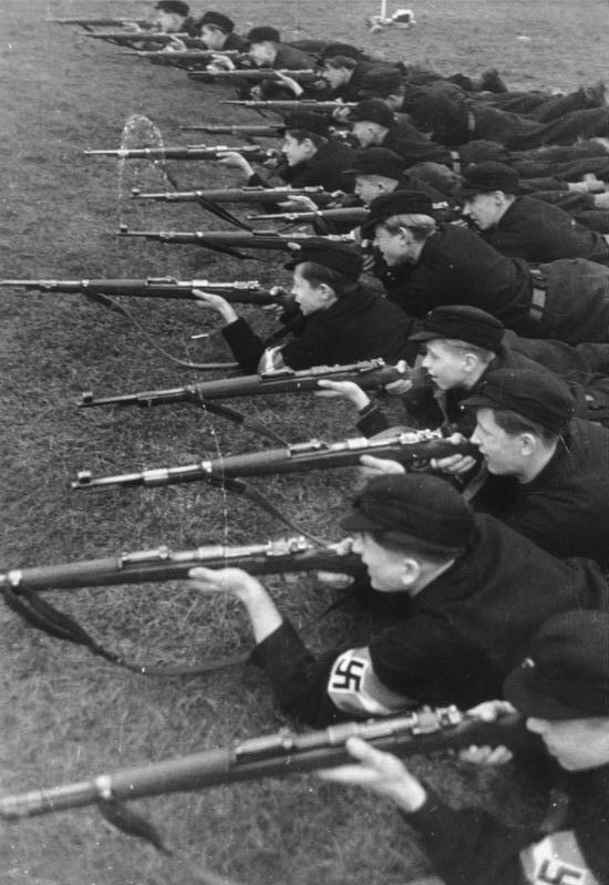 Soldiers of the Hitlerjugend practicing the use of rifles while in a Bann-Lager in 1933.